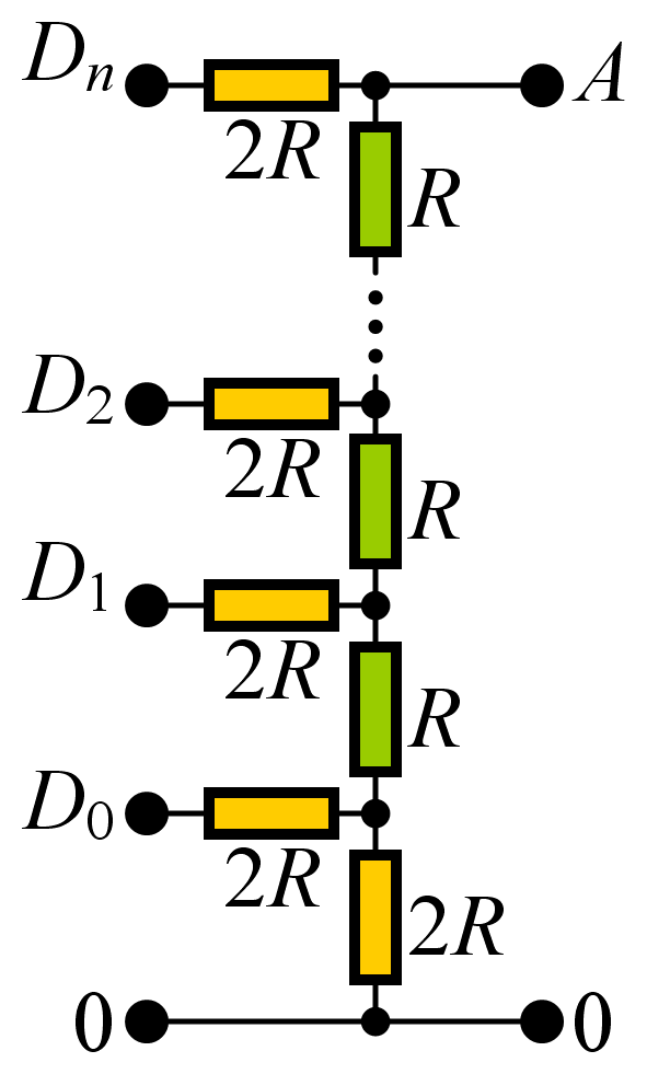 Diagram showing the R-2R resistor ladder for converting digital, binary numbers into an analog voltage. Drawn in MS Word, then "screenshot" and saved ad a .png file.